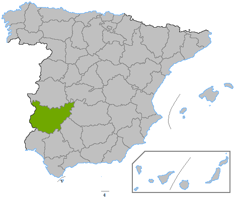 Location of the province of Badajoz, in Spain. Basado en: ProvPont.jpg Source: Designed by Satesclop. Original picture, designed by Sobreira.